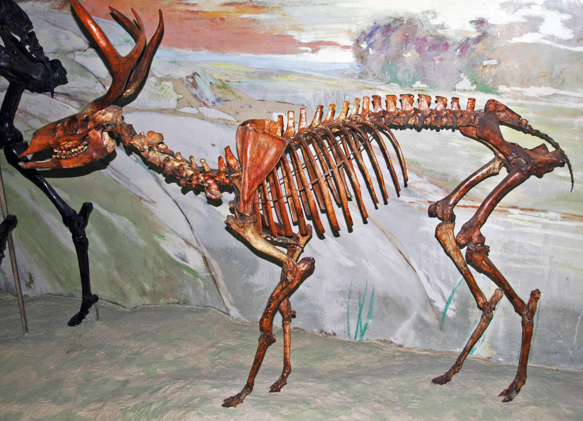 Navahoceros fricki (Schultz & Howard, 1935) - fossil cave deer skeleton from the Pleistocene of New Mexico, USA. (public display, Nebraska State Museum of Natural History, Lincoln, Nebraska, USA) Classification: Animalia, Chordata, Vertebrata, Mammalia, Artiodactyla, Cervidae Locality: Guadalupe Mountains, southeastern New Mexico, USA